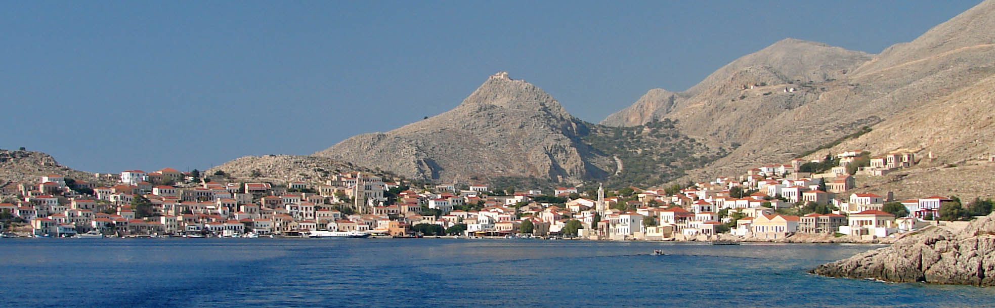 The village of Emborio on Halki with the Crusader castle in the background. This is from an original photograph by myself taken in September 2006.